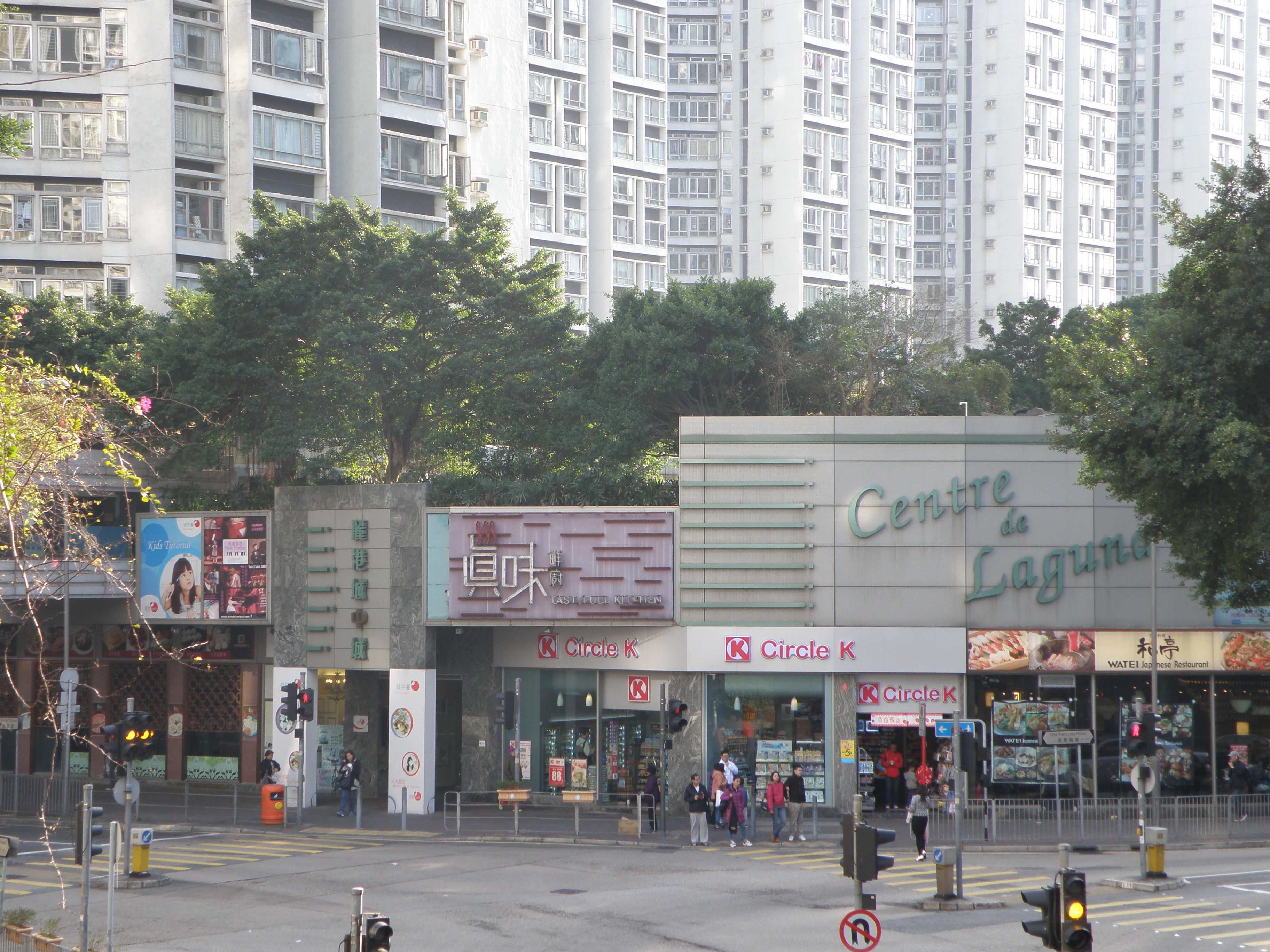 Centre de Laguna in Lam Tin, Hong Kong.